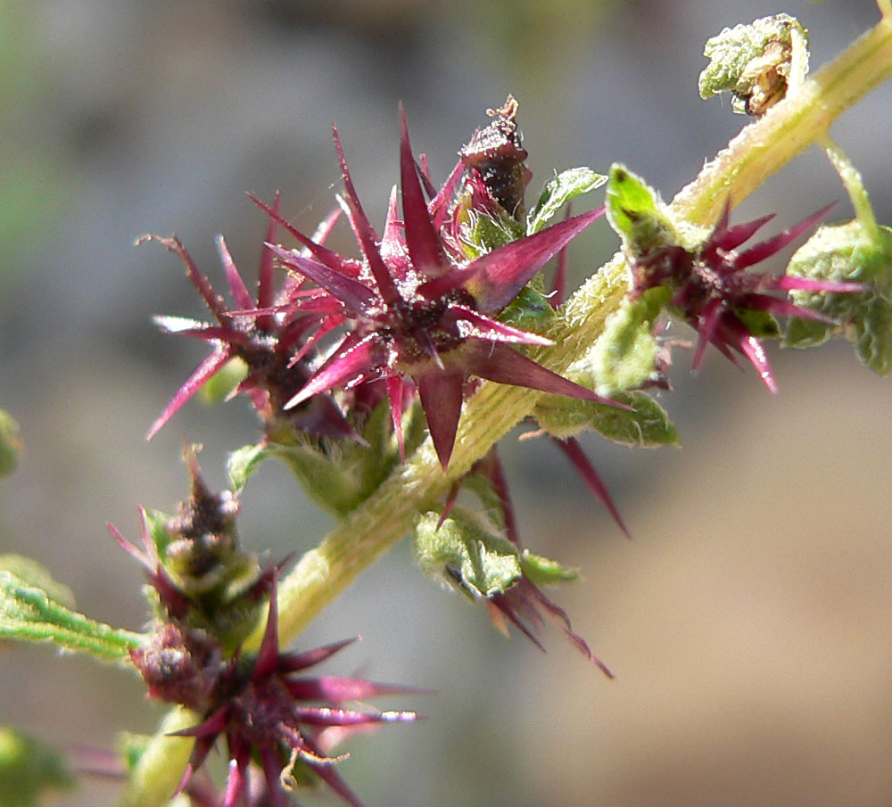 Ambrosia acanthicarpa at Wheeler Camp Spring west of Blue Diamond, Red Rock Canyon, Spring Mountains, southern Nevada (elev. about 1050 m)